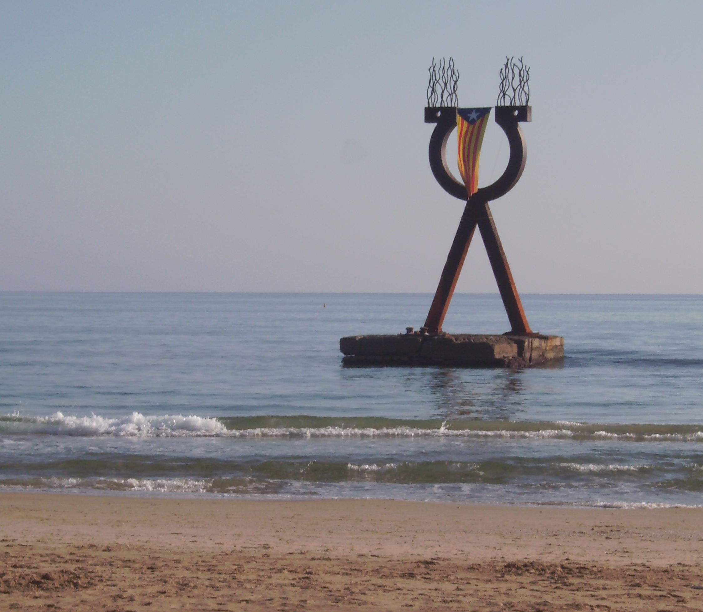 Alfa i Omega Monument on Torredembarra beach, Catalonia